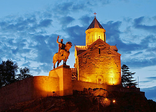 equestrian statue of king Vakhtang I of Iberia with Metekhi church in Tbilisi, Georgia